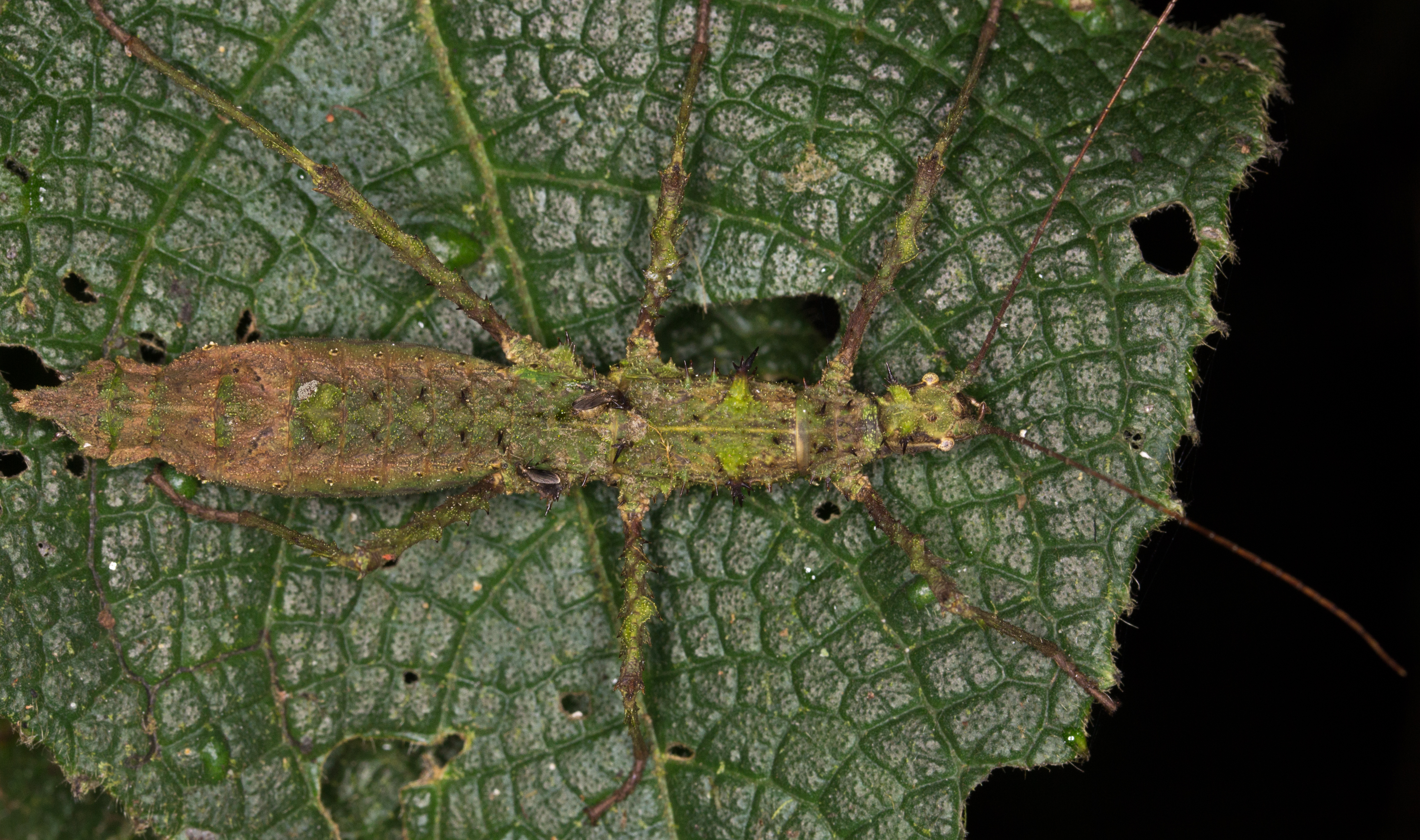 Mossy stick insect from Ecuador